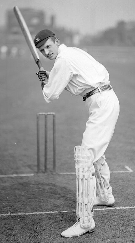 circa 1900: Surrey cricketer F C Holland at the crease